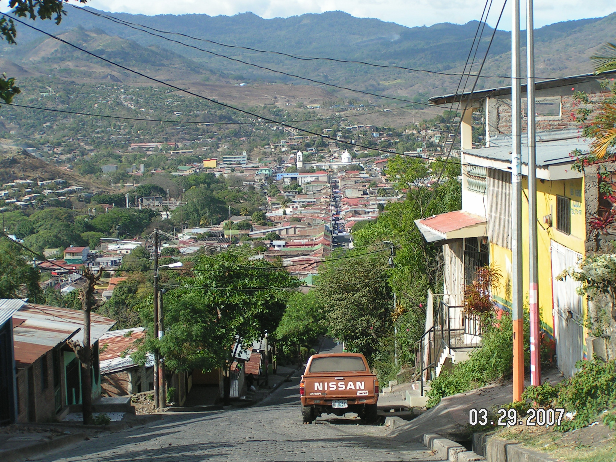 Main street (Calle de Tiendas) toward Parque Morazan and Cathedral